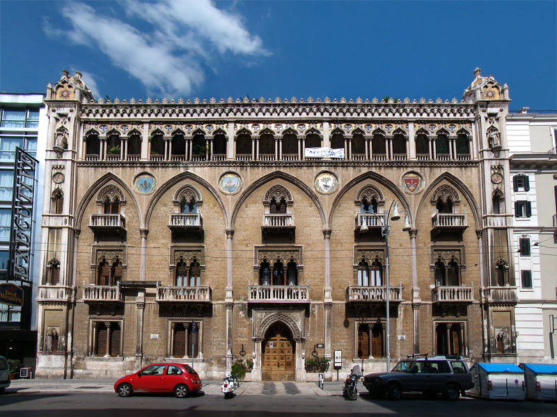 Palazzo Fizzarotti (1906), Bari, Apulia, Italy.